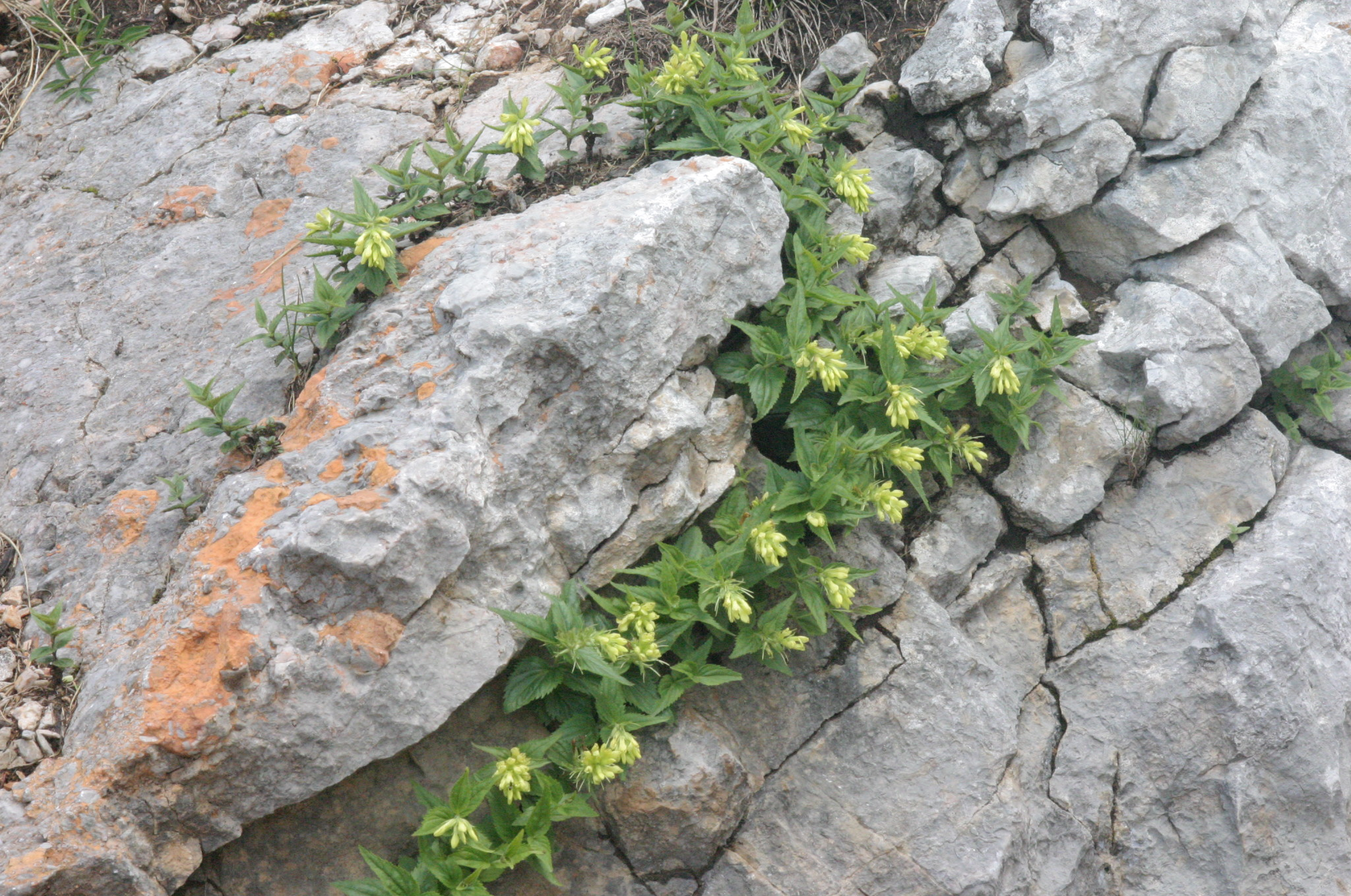 Paederota lutea